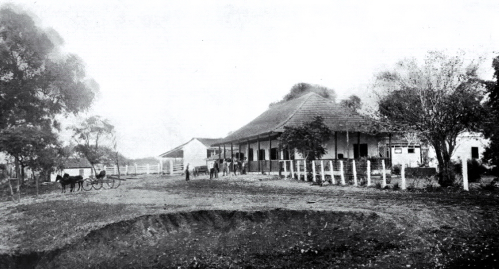 image number precedes image caption in book, Mexico of the Mexicans (1918).